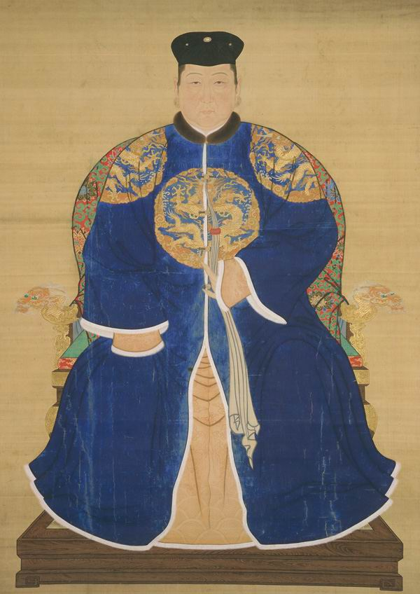 Wife of Prince Yinreng, son of Kangxi Emperor